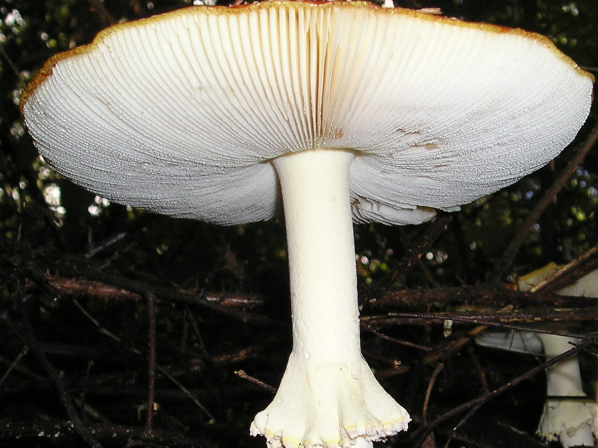 Detail of Amanita muscaria showing the gill edges exuding droplets of water, in a forest near Paris, France.